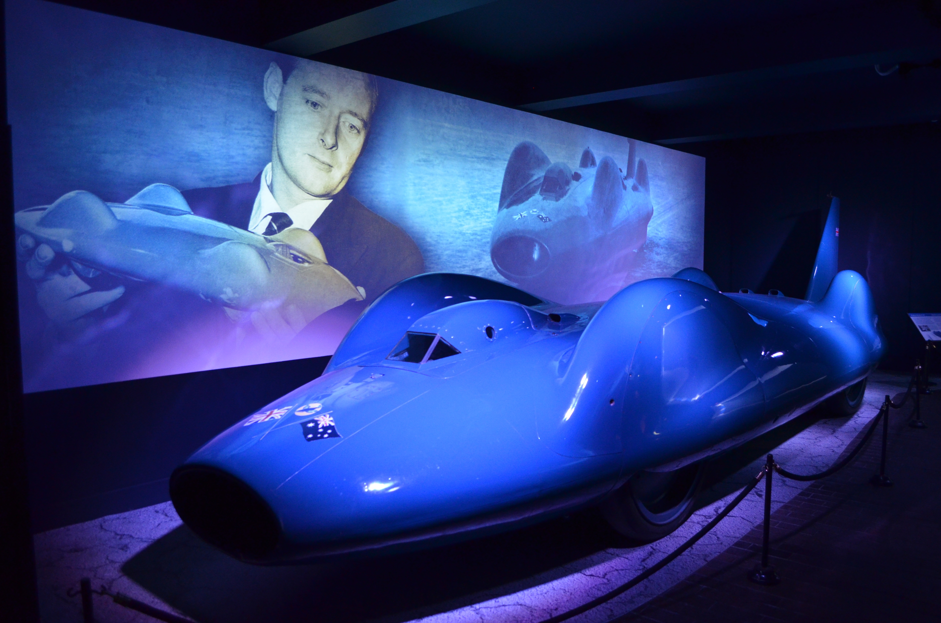 Bluebird-Proteus CN7 at Beaulieu